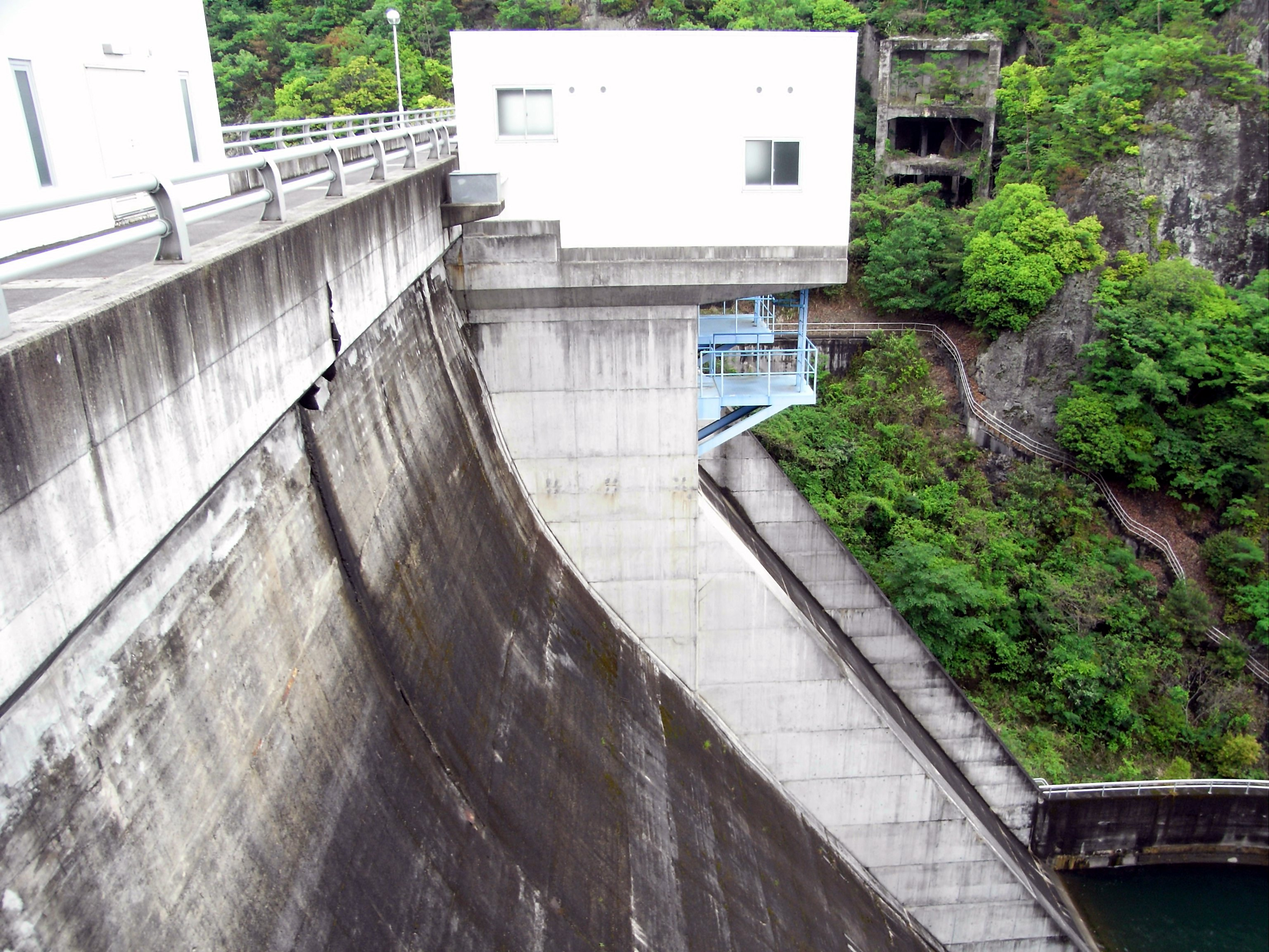 Kamogawa Dam(Kamogawa river/Hyogo Pref./Japan)